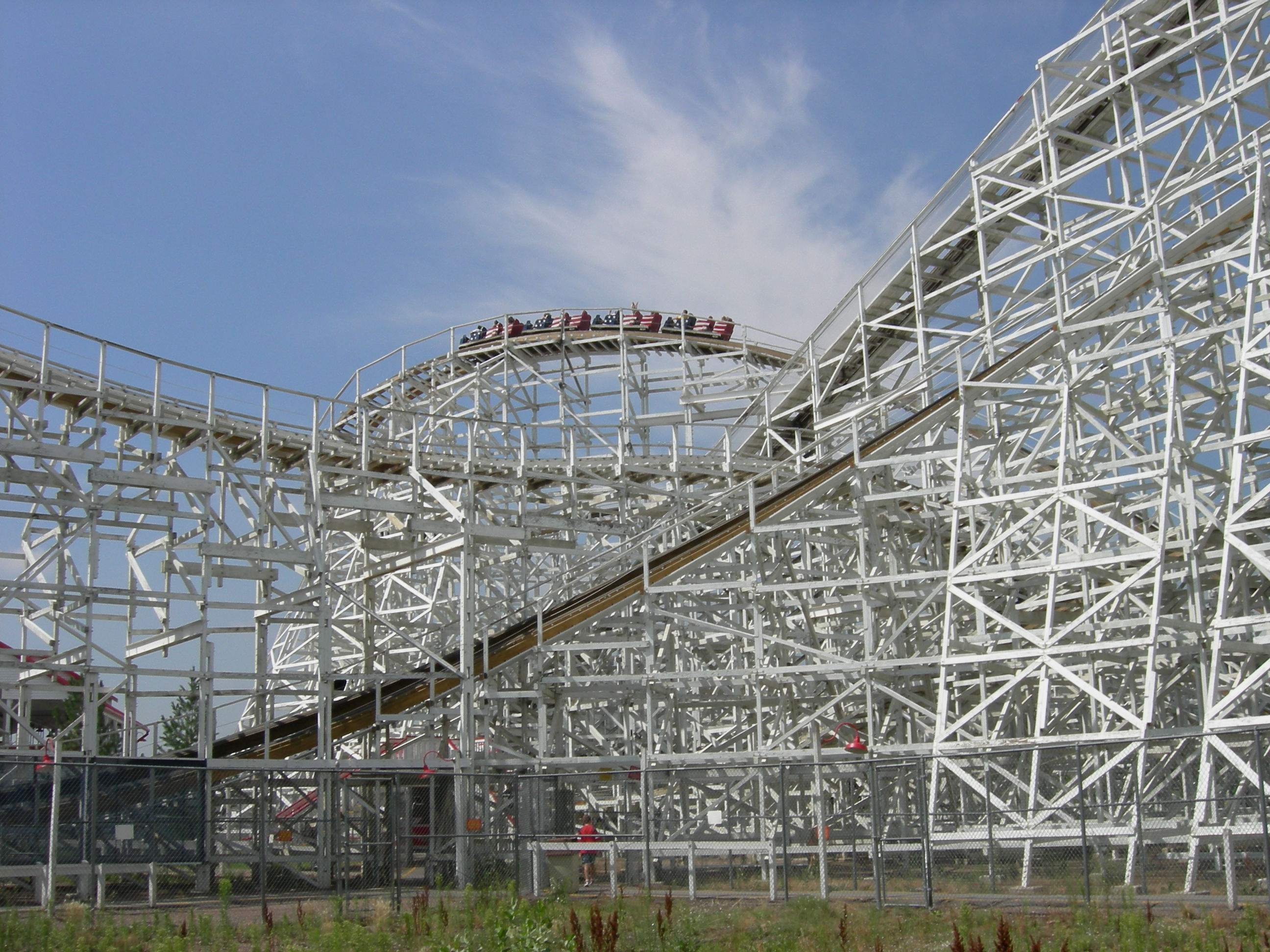 Twister II, the train is on the first turnaround. The ride is based off of the original Elitch Gardens' Mr. Twister roller coaster. Pic taken on July 10th, 2006 by Carl F.